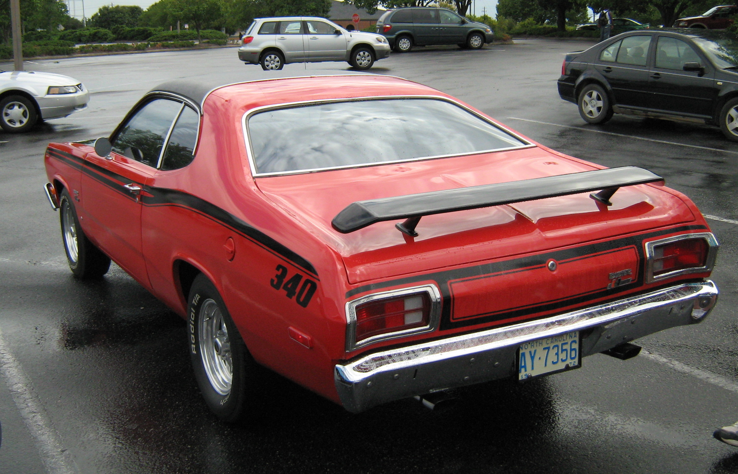 1973 Plymouth Duster 340. The decal trim is correct for this car. However, the wheels are not stock units, nor is the rear spoiler correct for this model and year.